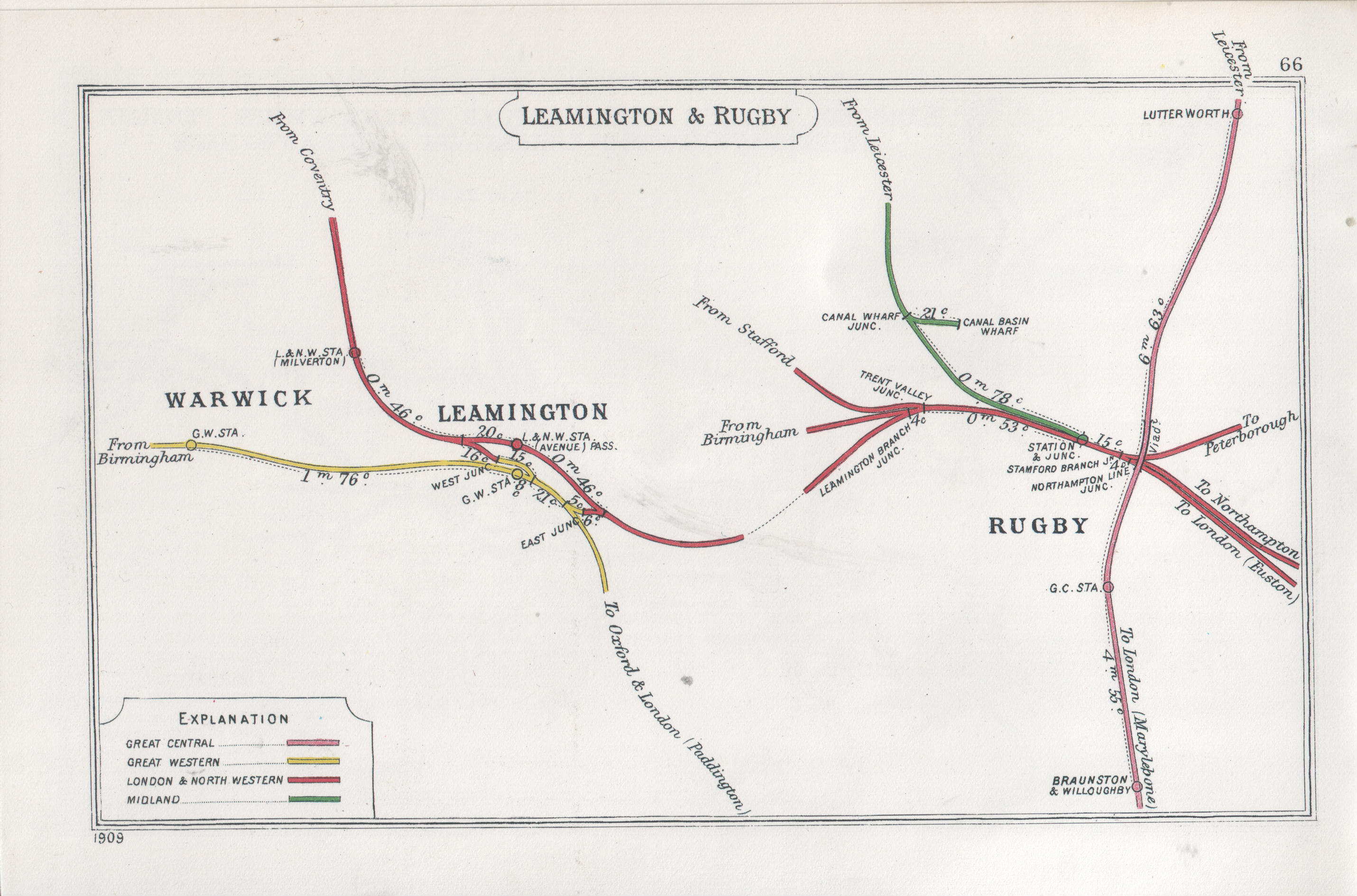 Pre Grouping railway junction around Leamington & Rugby